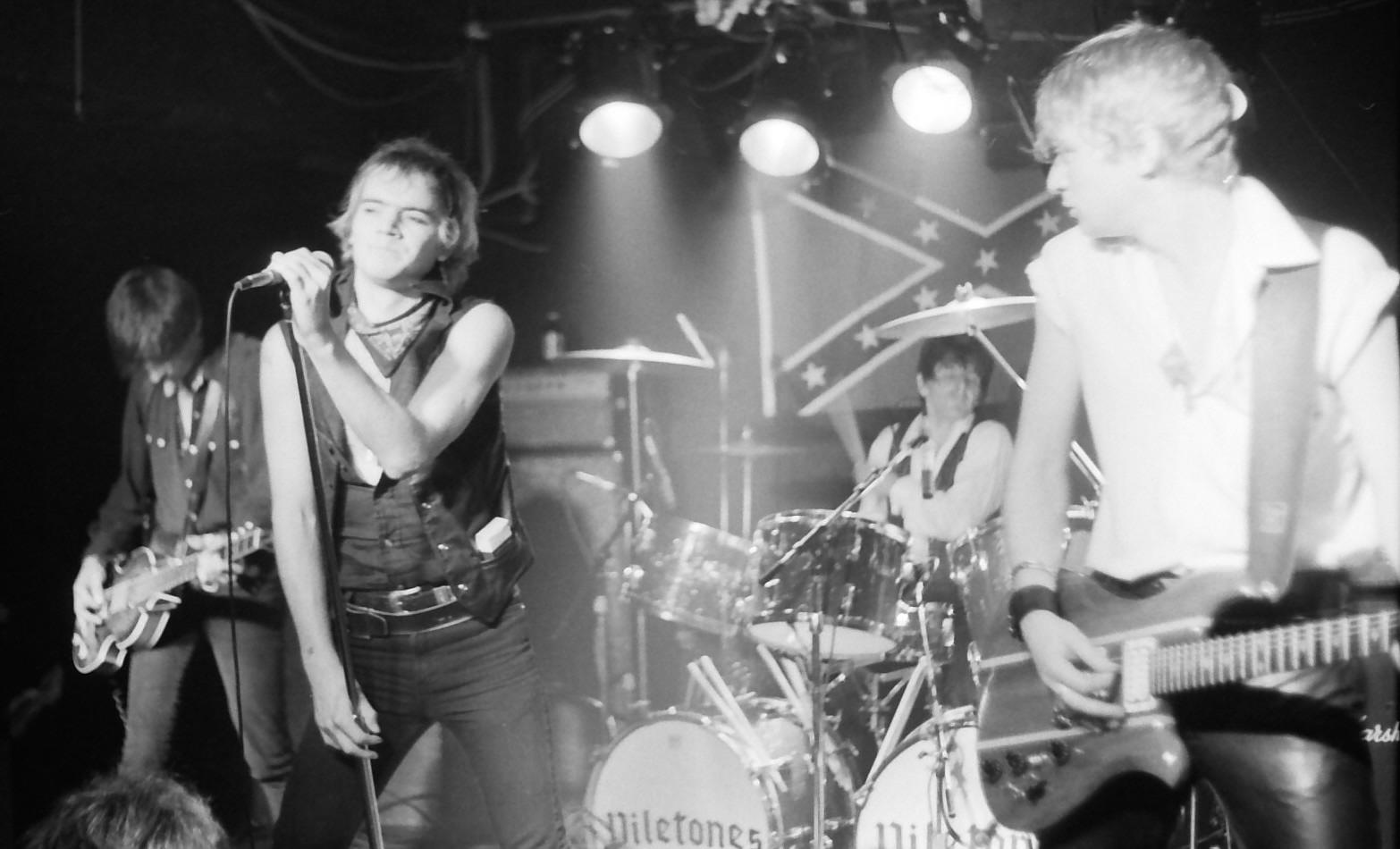 The Viletones perform at Larry's Hideaway, Toronto, September 20, 1980